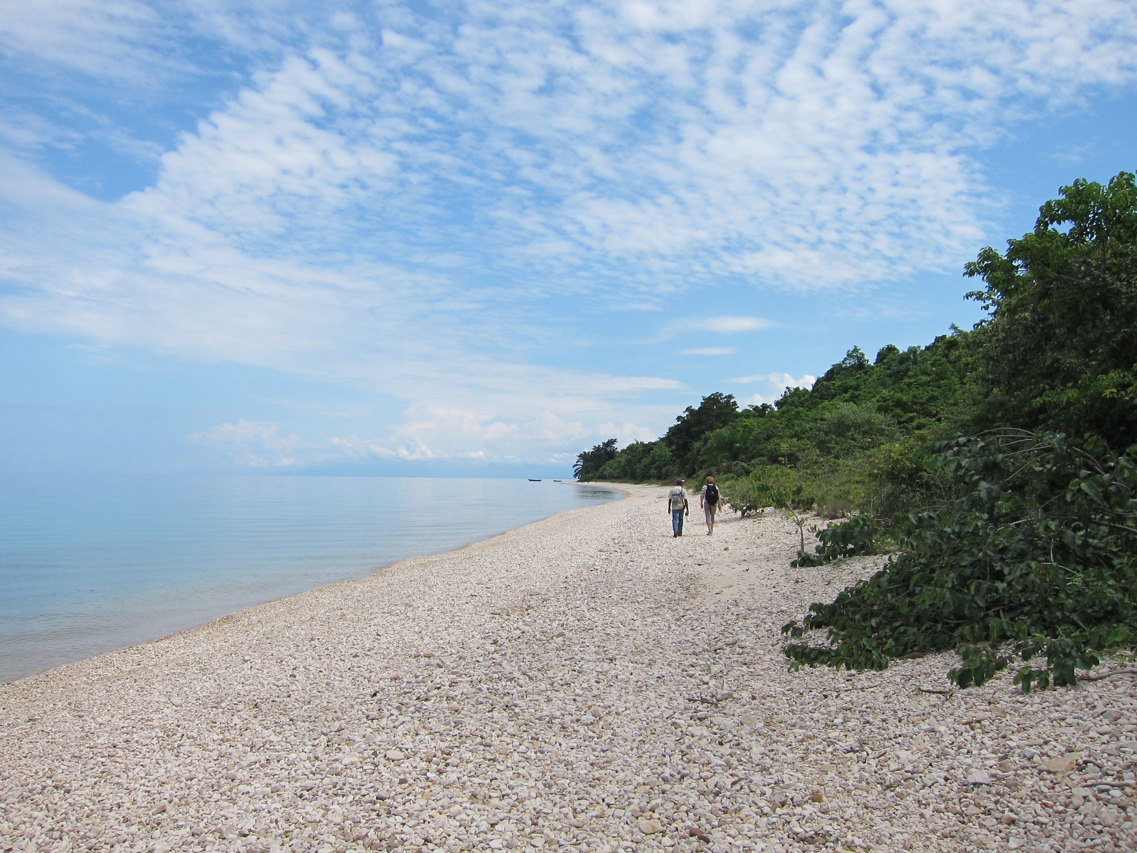 Gombe Stream National Park, Lake Tanganyika, Tanzania